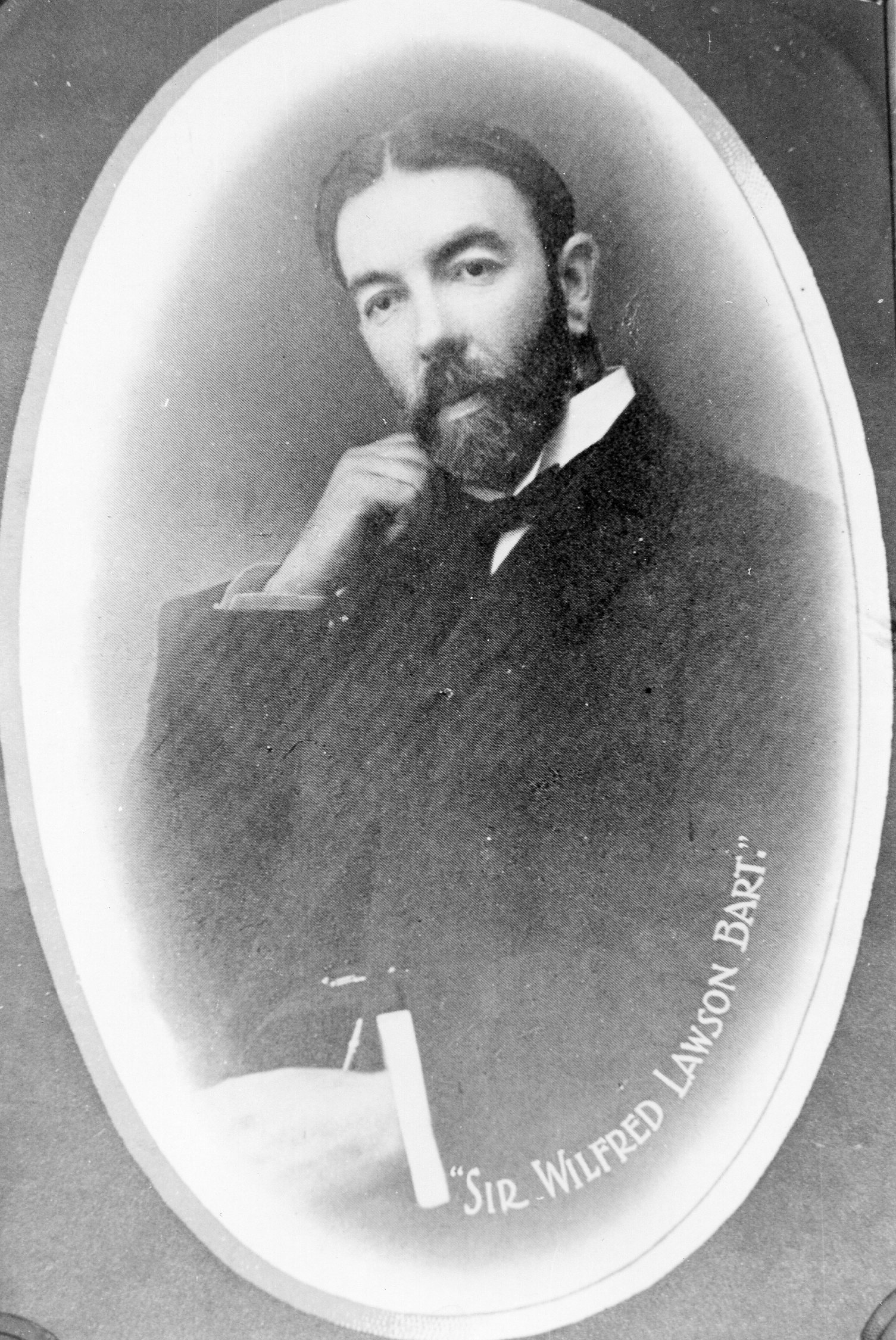 Political Advertising Card for 1910 UK General election